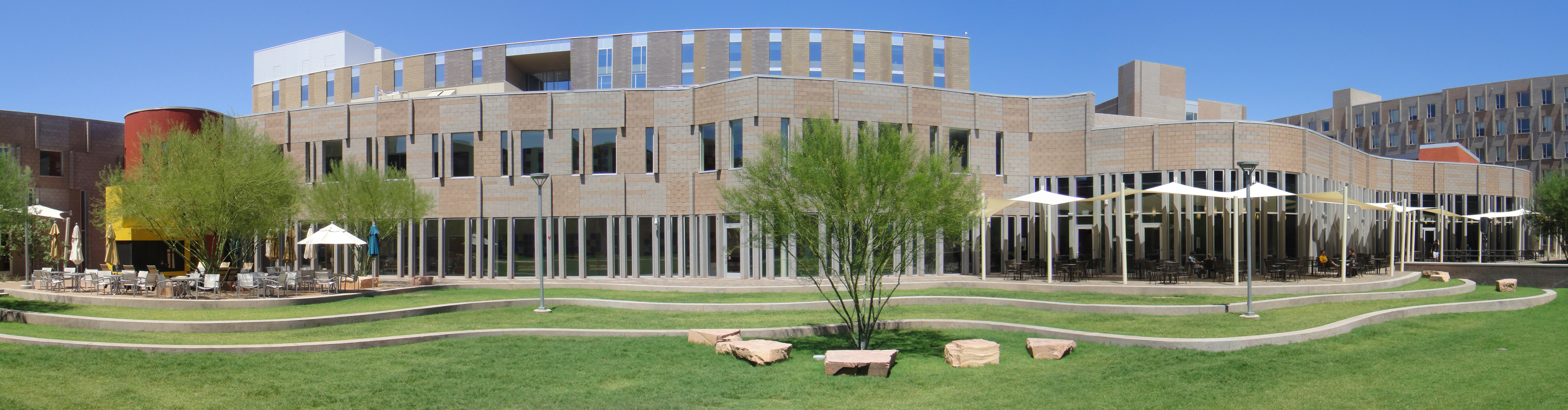 Photo of the south side of the Honors Hall building at the Barrett Honors College. Part of the ASU Main Campus in Tempe, Arizona